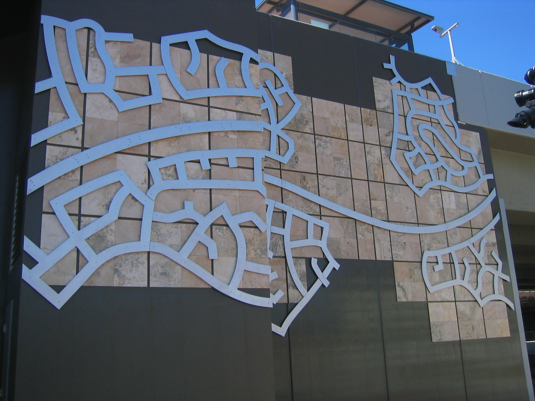 The decorations of Murdoch Station, taken from the south-west carpark.